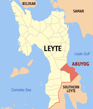 Map of Leyte showing the location of Abuyog